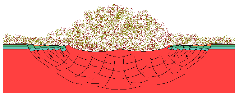 Nördlinger Ries, schematic drawing of cratering event. Fourth phase: Growth of the crater, blocks of rock sliding inwards. Simplified, schematic drawing based on the references listed below.